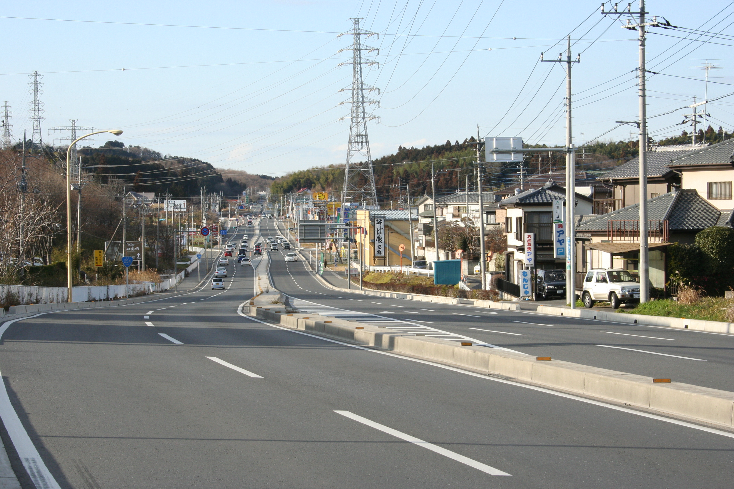 Ranzan bypass of Route 254, Ranzan-machi, Hiki-gun, Saitama, Japan 国道254号線嵐山バイパス（埼玉県比企郡嵐山町）